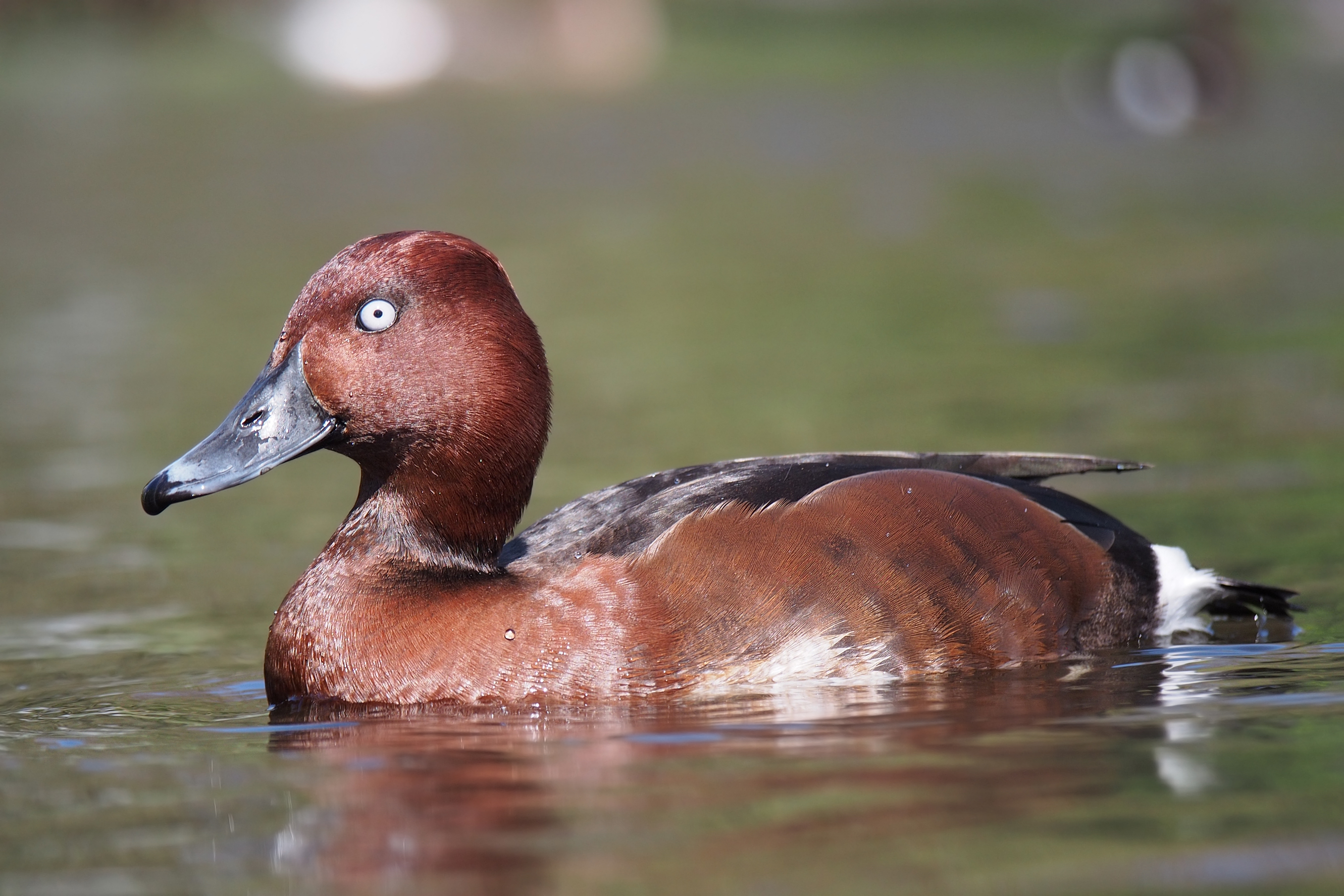 Aythya nyroca at Martin Mere, UK